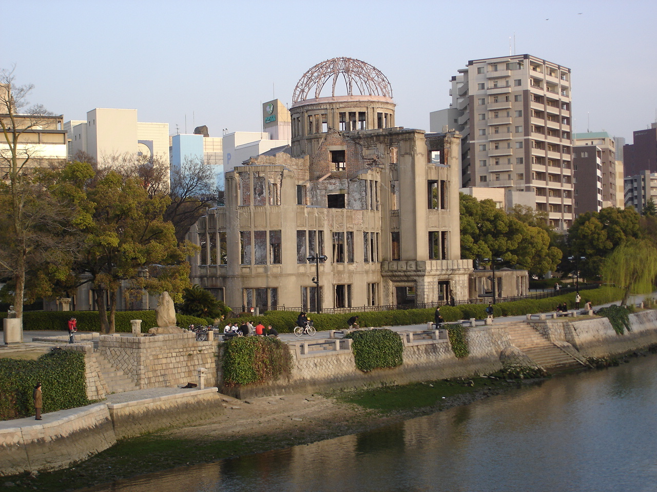 Designed by the Czech architect Jan Letzel the dome was completed in April 1915. Now known as the Hiroshima Peace Memorial, the Atomic Bomb Dome or A-Bomb Dome in Hiroshima, Japan, it is part of the Hiroshima Peace Memorial Park and was designated a UNESCO World Heritage Site in 1996. The ruin serves as a memorial to the people who were killed in the atomic bombing of Hiroshima on August 6, 1945. Over 70,000 people were killed instantly, and another 70,000 suffered fatal injuries from the radiation